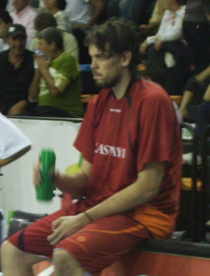 Marc Gasol with Akasvayu Girona. Match ViveMenorca-Akasvayu Girona